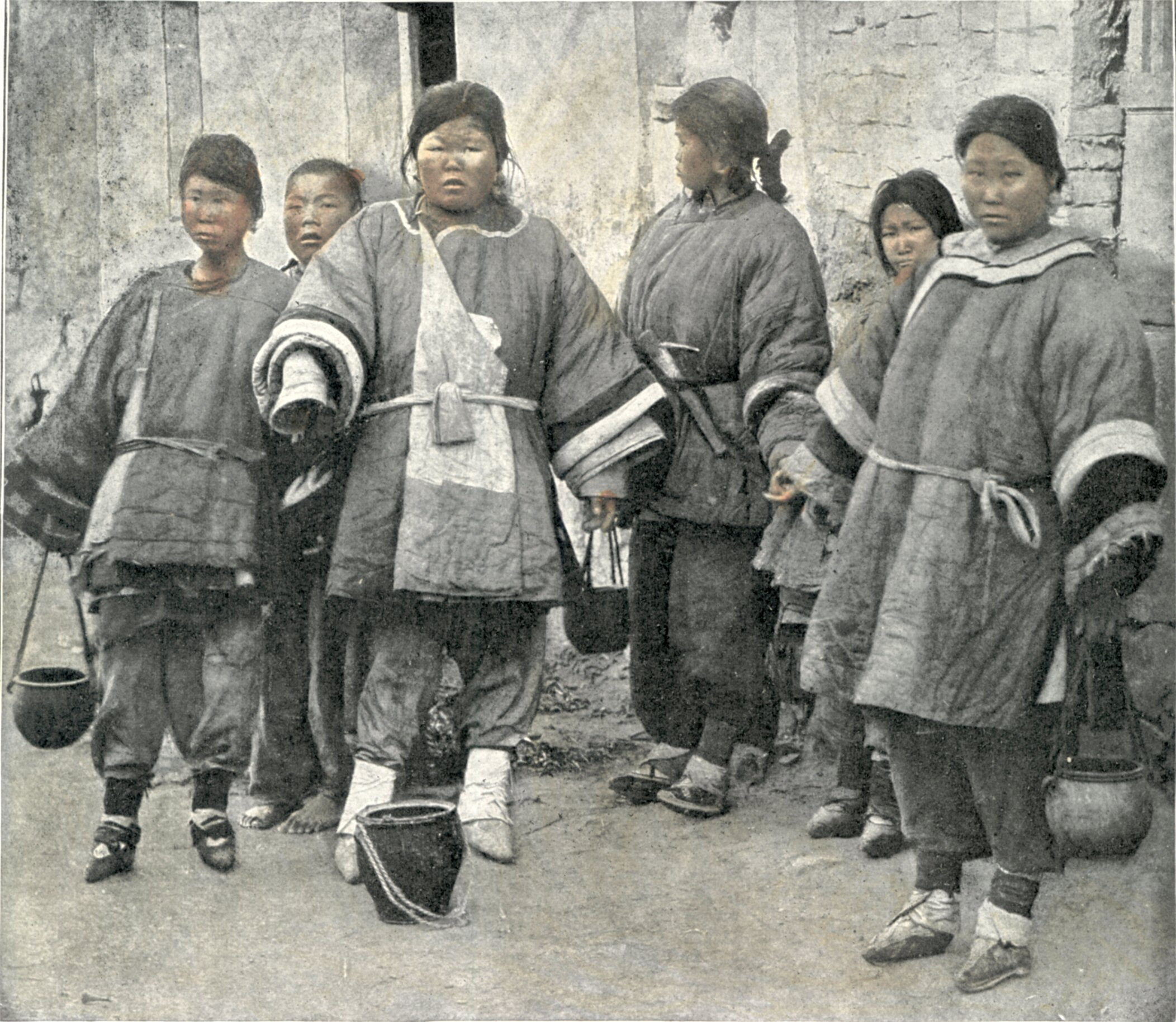 A group of women from German-China (Qingdao (Tsingtau / Tsingtao)).